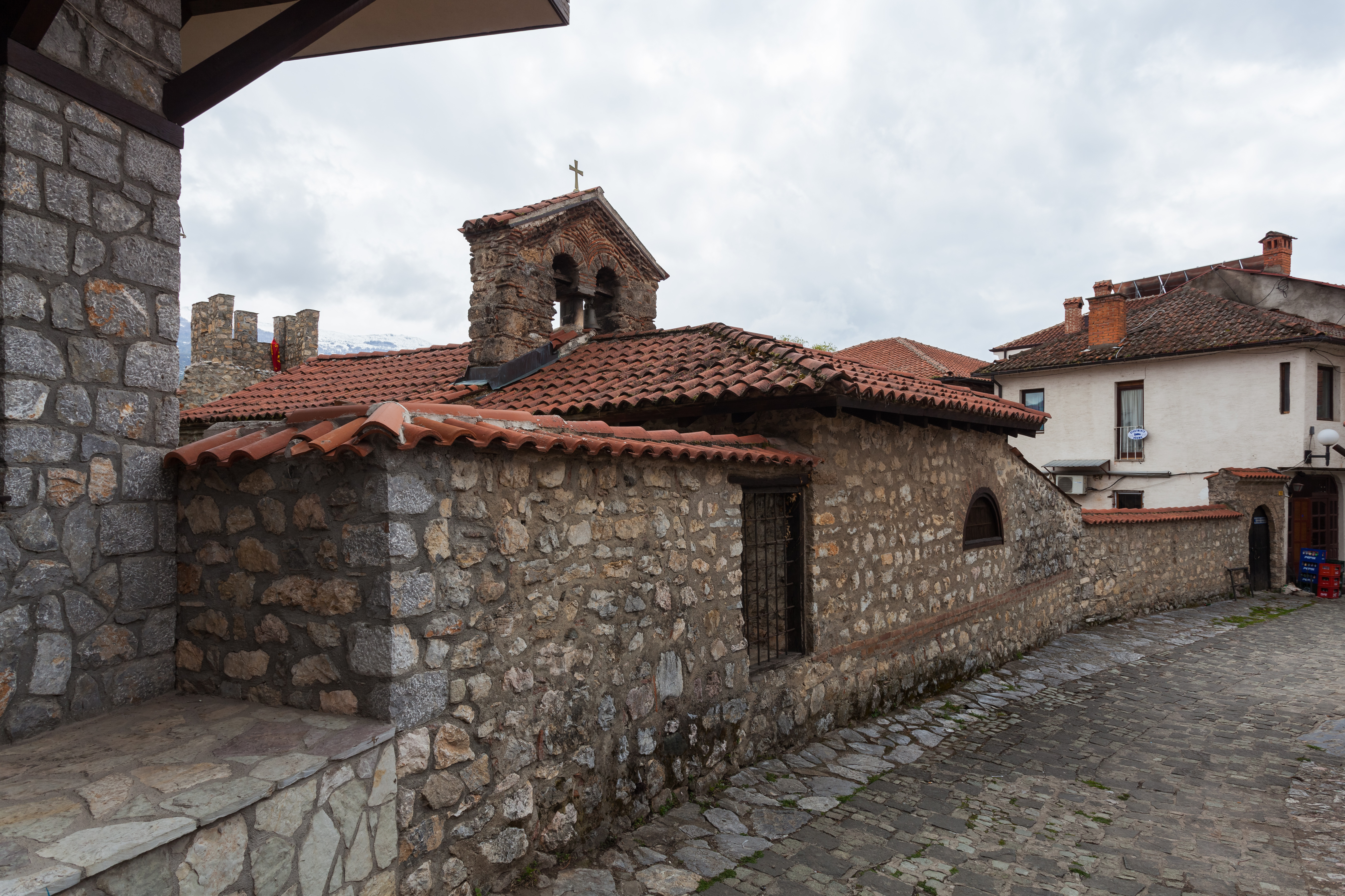 Holy Virgin Mary Bolnička church, Ohrid, Macedonia